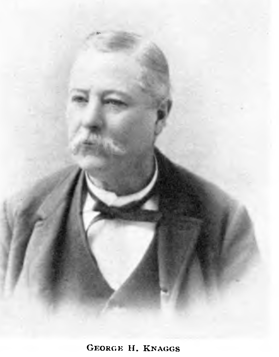 photograph of George H. Knaggs, steamboat purser on various vessels in the Pacific Northwest